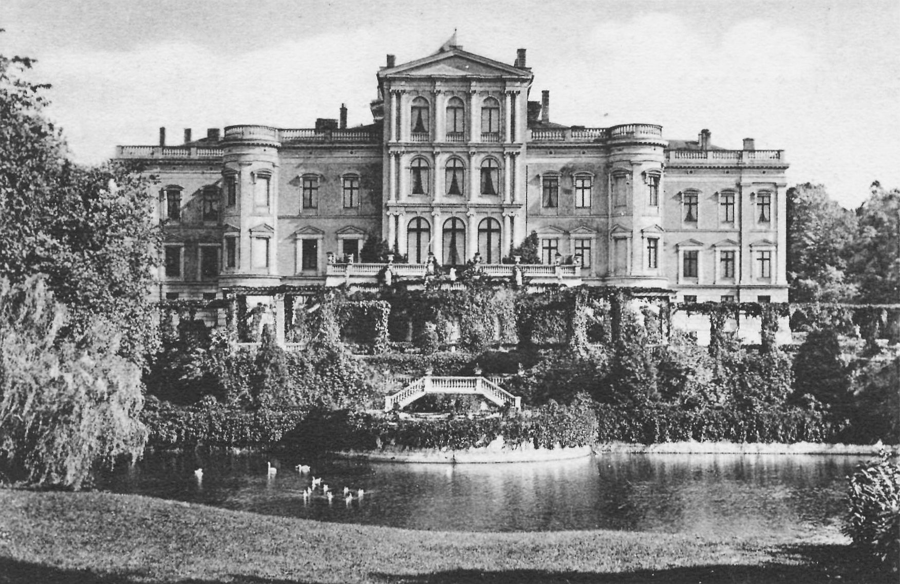 Former Castle Putbus on the Island Rügen, Mecklenburg-Vorpommern, Germany